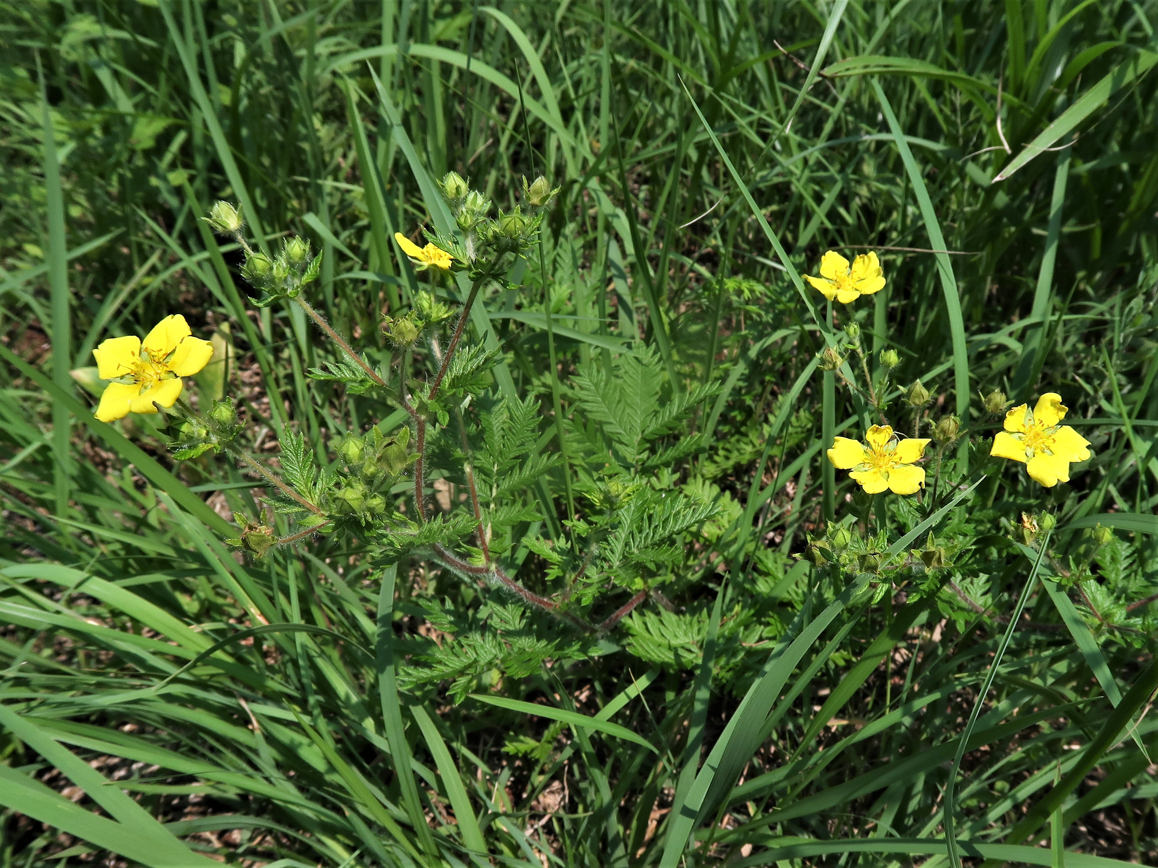 Potentilla chinensis, Hitachi Seaside Park, Ibaraki pref., Japan